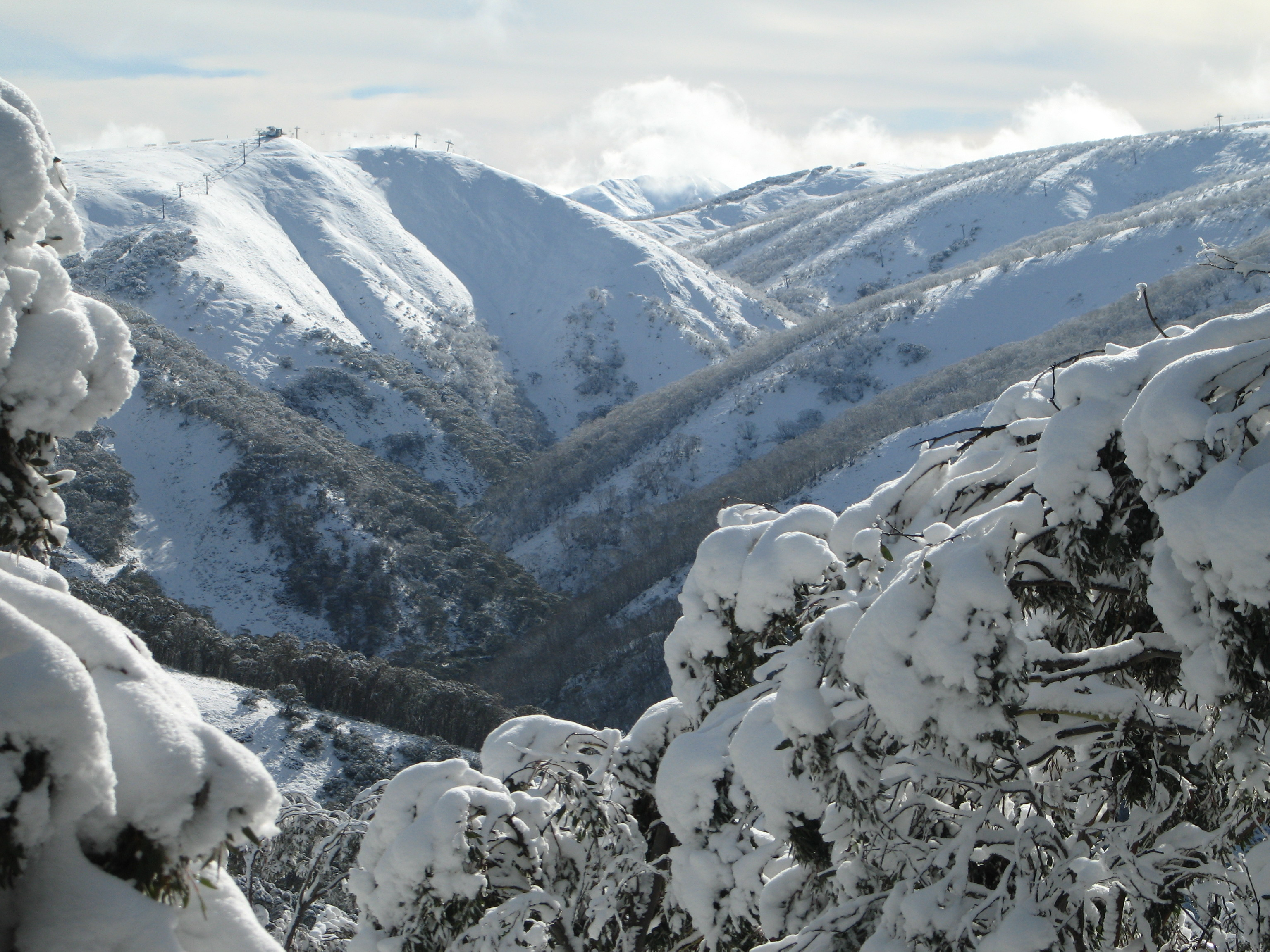 View of Mt Hotham ski fields after 20 cm fresh snowfall, featuring the notable ski run "Mary's Slide".